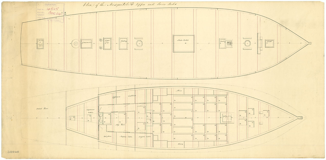 Lower deck plan. Lower deck plan